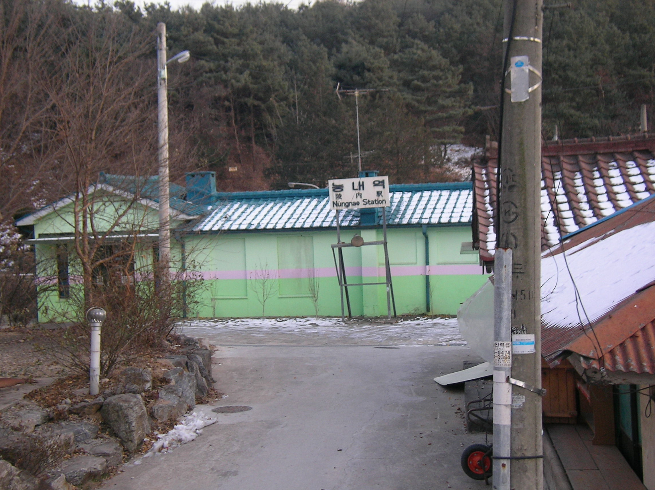 Neungnae Station